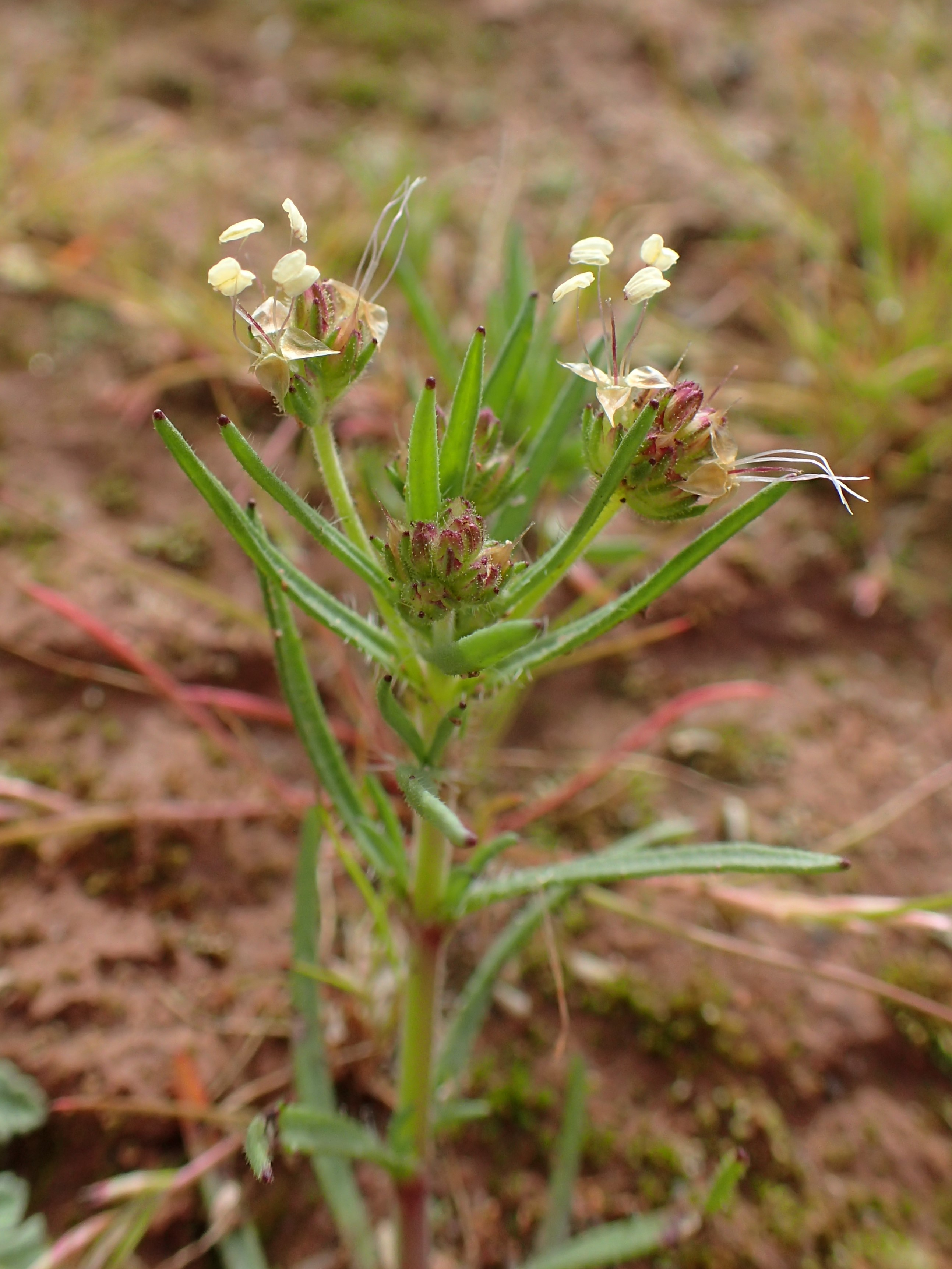 Plantago afra in Waride (Béni Mellal-Khénifra, Morocco)